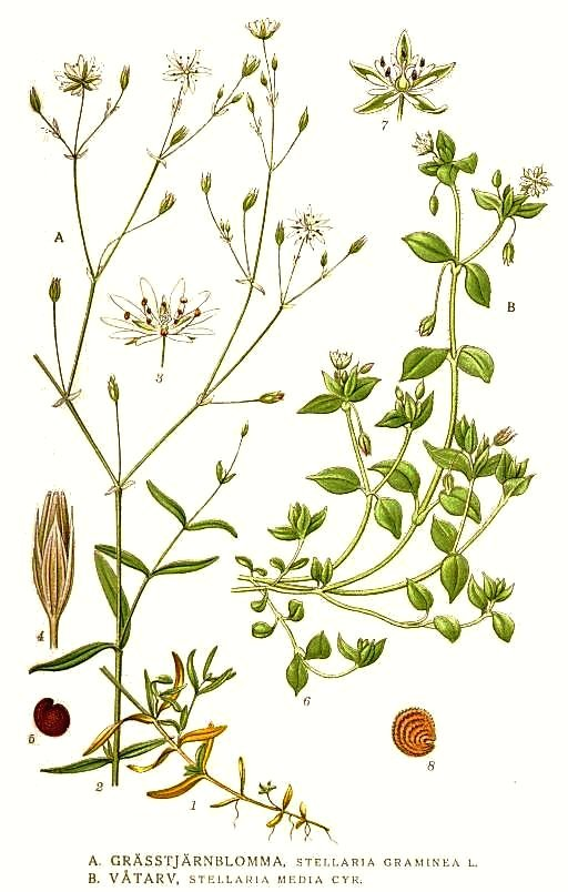 Stellaria graminea L., Stellaria media (L.) Vill. Original Description A. Grässtjärnblomma, Stellaria graminea L. B. Våtarv, Stellaria media Cyr.